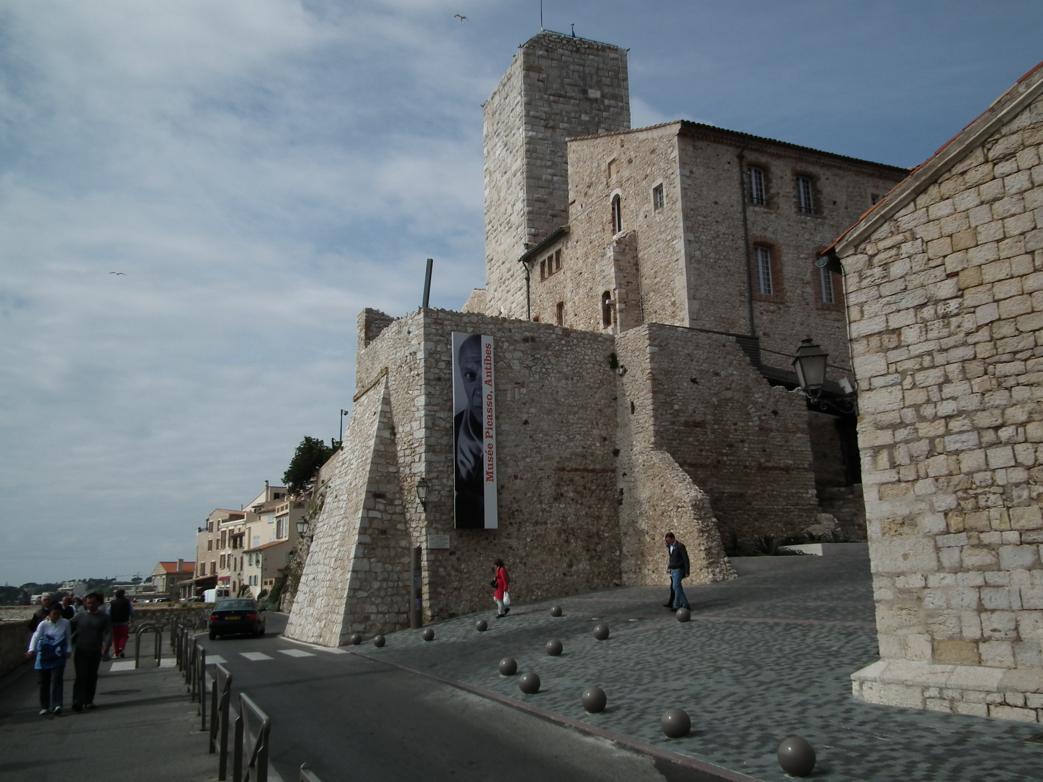 Picasso Museum in Antibes 2011